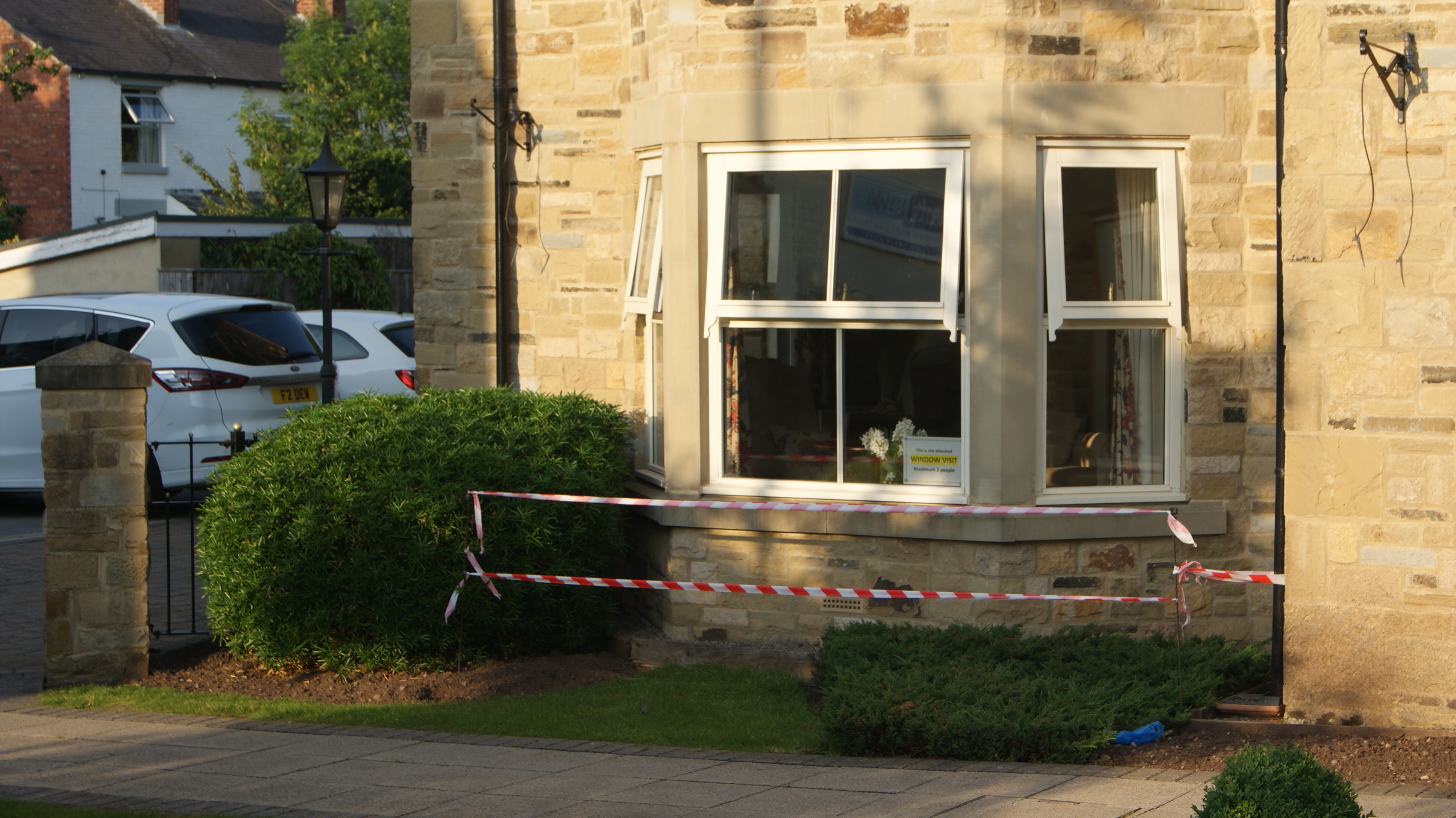 The visiting window, Wetherby Manor, Wetherby, West Yorkshire. Taken on the evening of Wednesday the 24th of June 2020.